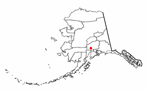 Adapted from Wikipedia's AK borough maps by Seth Ilys.